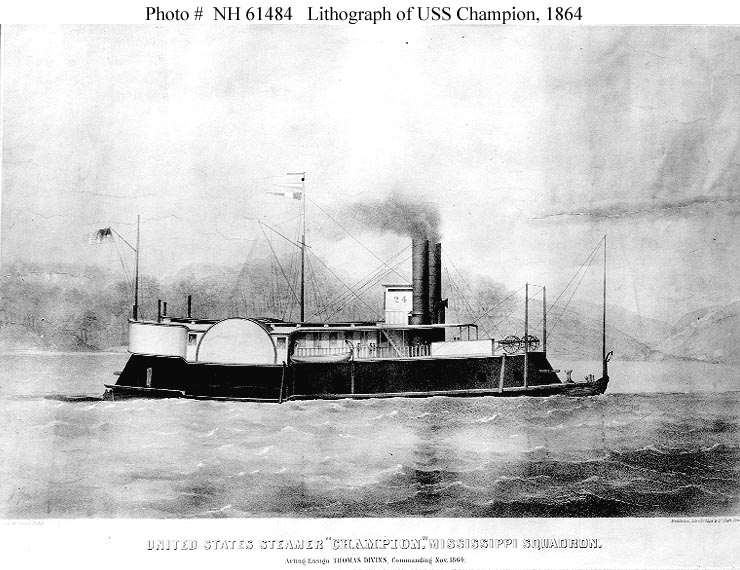 USS Champion (1863-1865, "Tinclad" # 24) Lithograph by Middleton, Strobridge & Company, Cincinnati, Ohio, 1864, after a drawing by Chas. A. Fisher. Inscription below the image reads: "United States Steamer Champion. Mississippi Squadron. Acting Ensign Thomas Divins, Commanding Nov. 1864". Thomas "Divins" is a misprint for Thomas Divine.